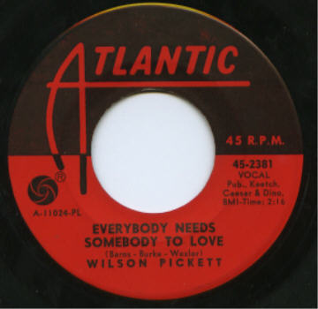 Single Wilson Pickett Everybody needs somebody to LOve